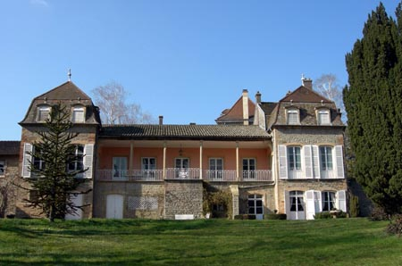 Face view of Chateau des Correaux, Leynes, France